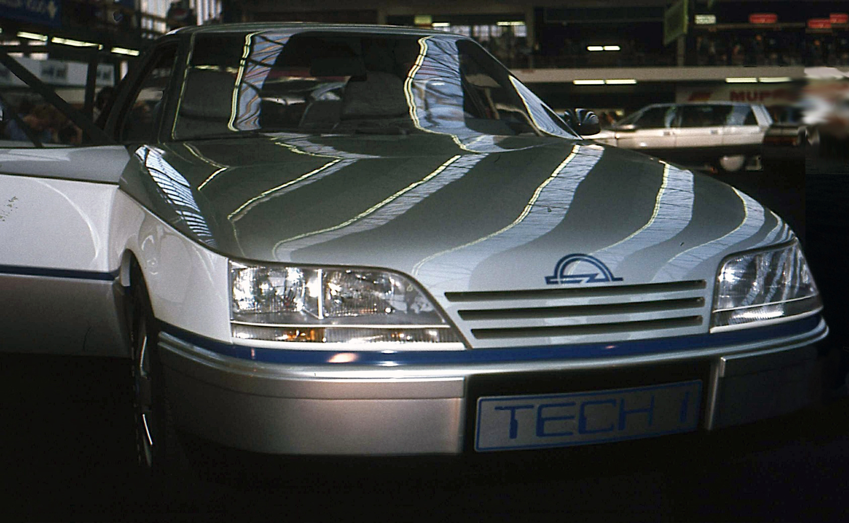 Opel TECH1 prototype at the 1983 Amsterdam Auto RAI